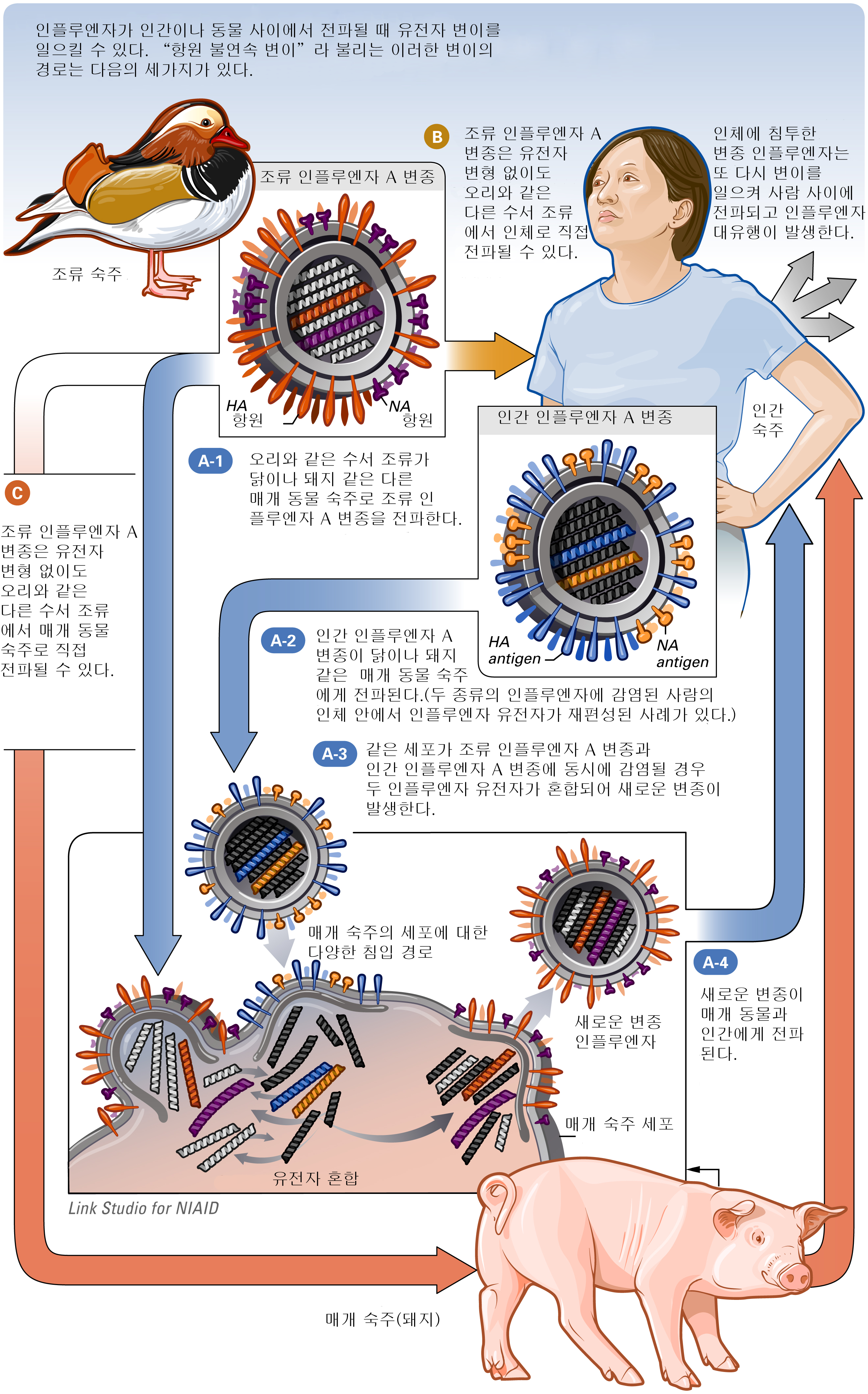 Illustration of antigenic shift